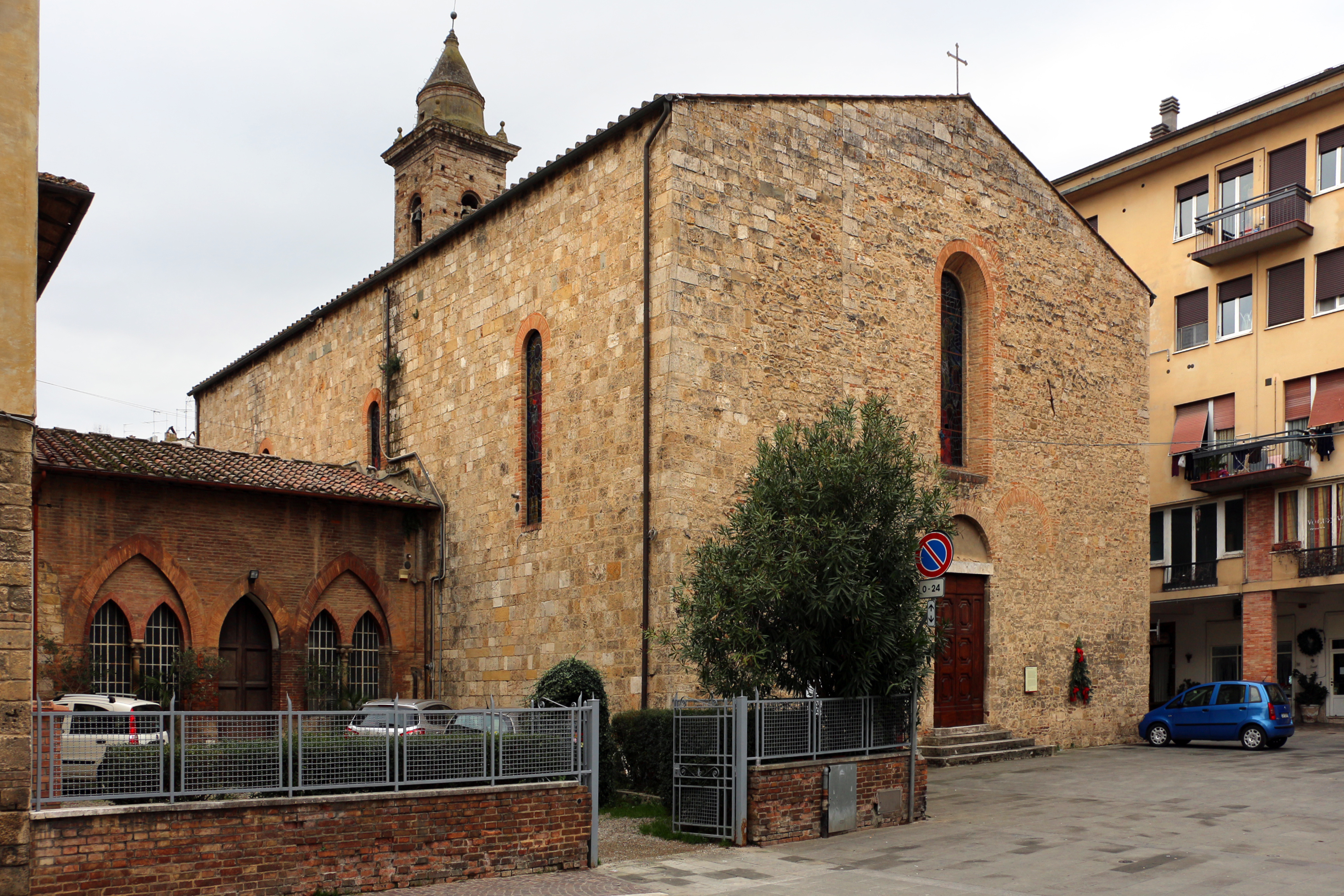 San Lorenzo (Poggibonsi)